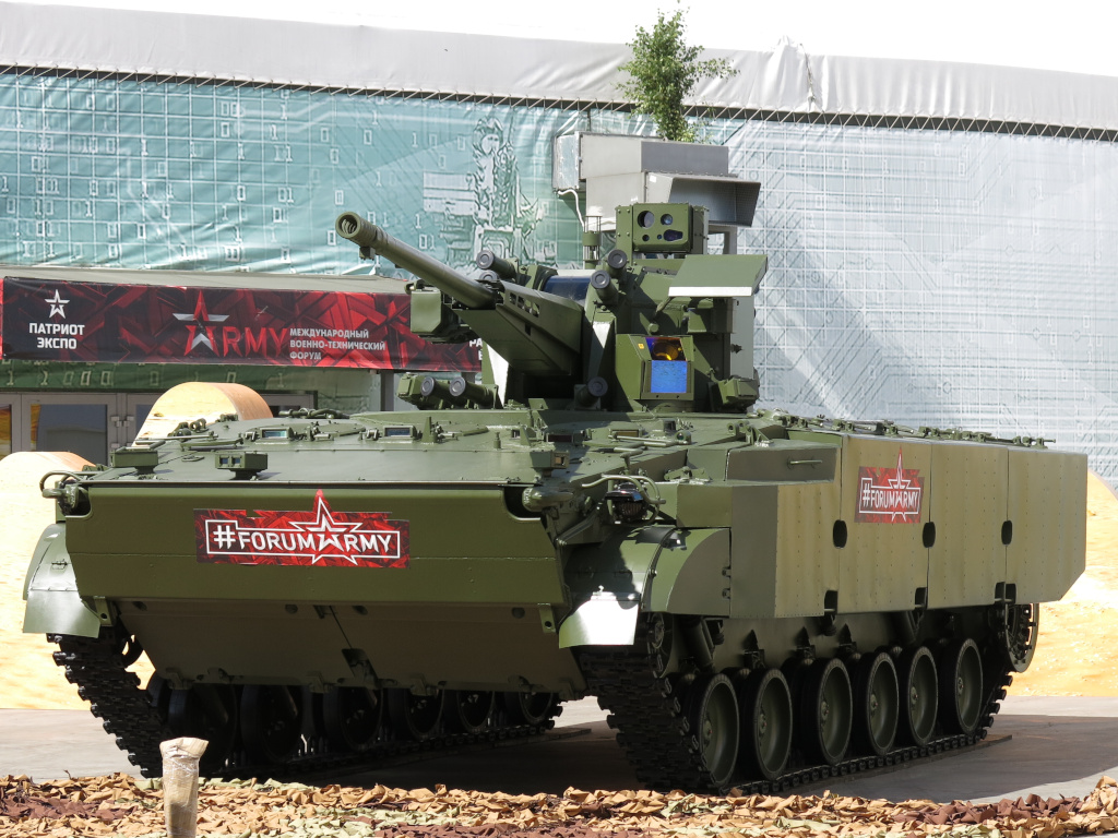 2S38 a BMP-3 anti-aircraft artillery variant presented at Expo Army 2018